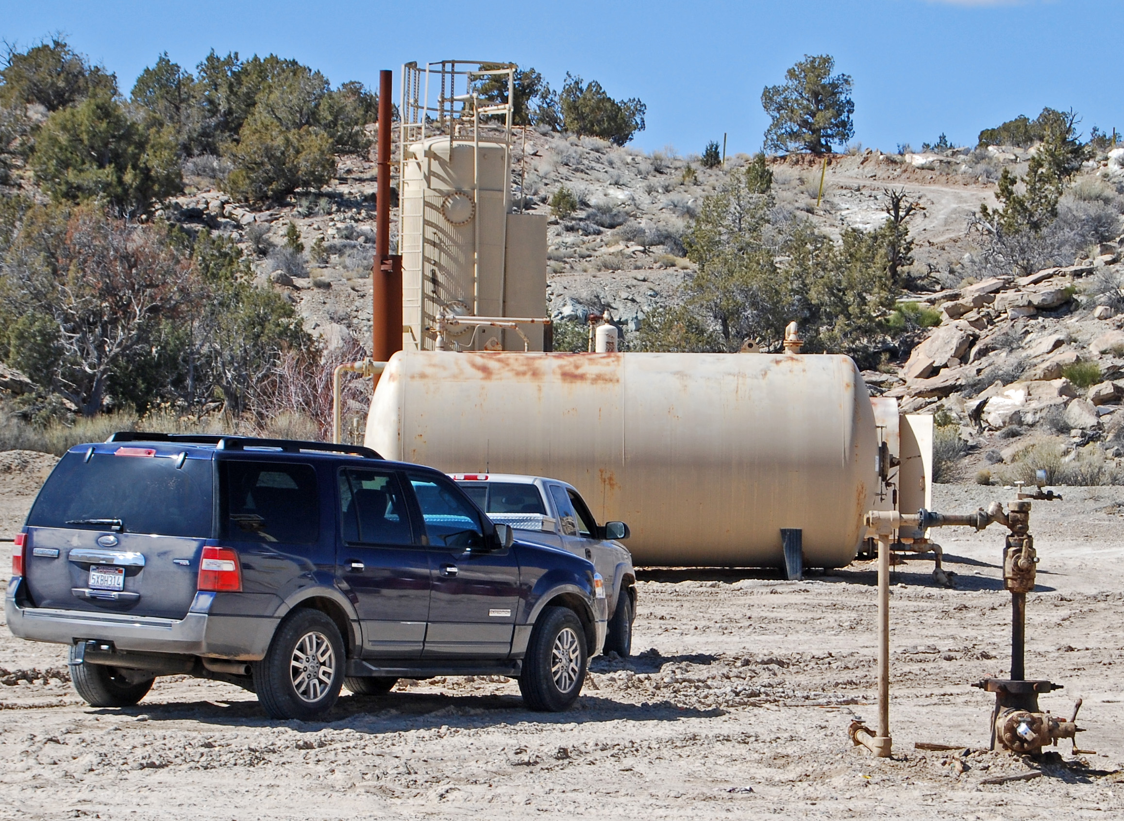 Water Injection Well